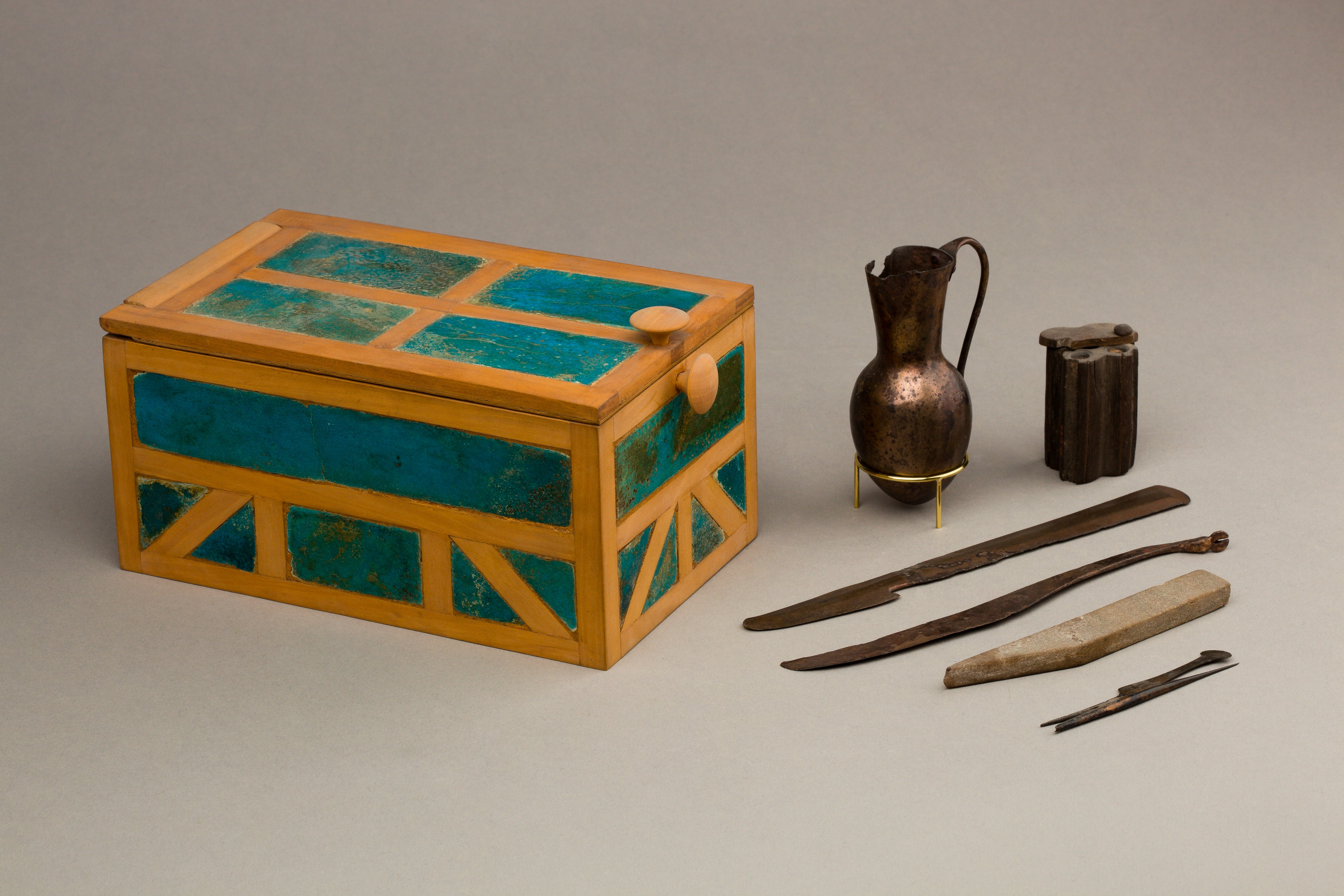 Pitcher